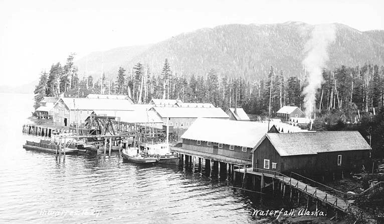 Caption on image: Waterfall, Alaska PH Coll 247.411 Subjects (LCTGM): Villages--Alaska; Waterfall--Alaska